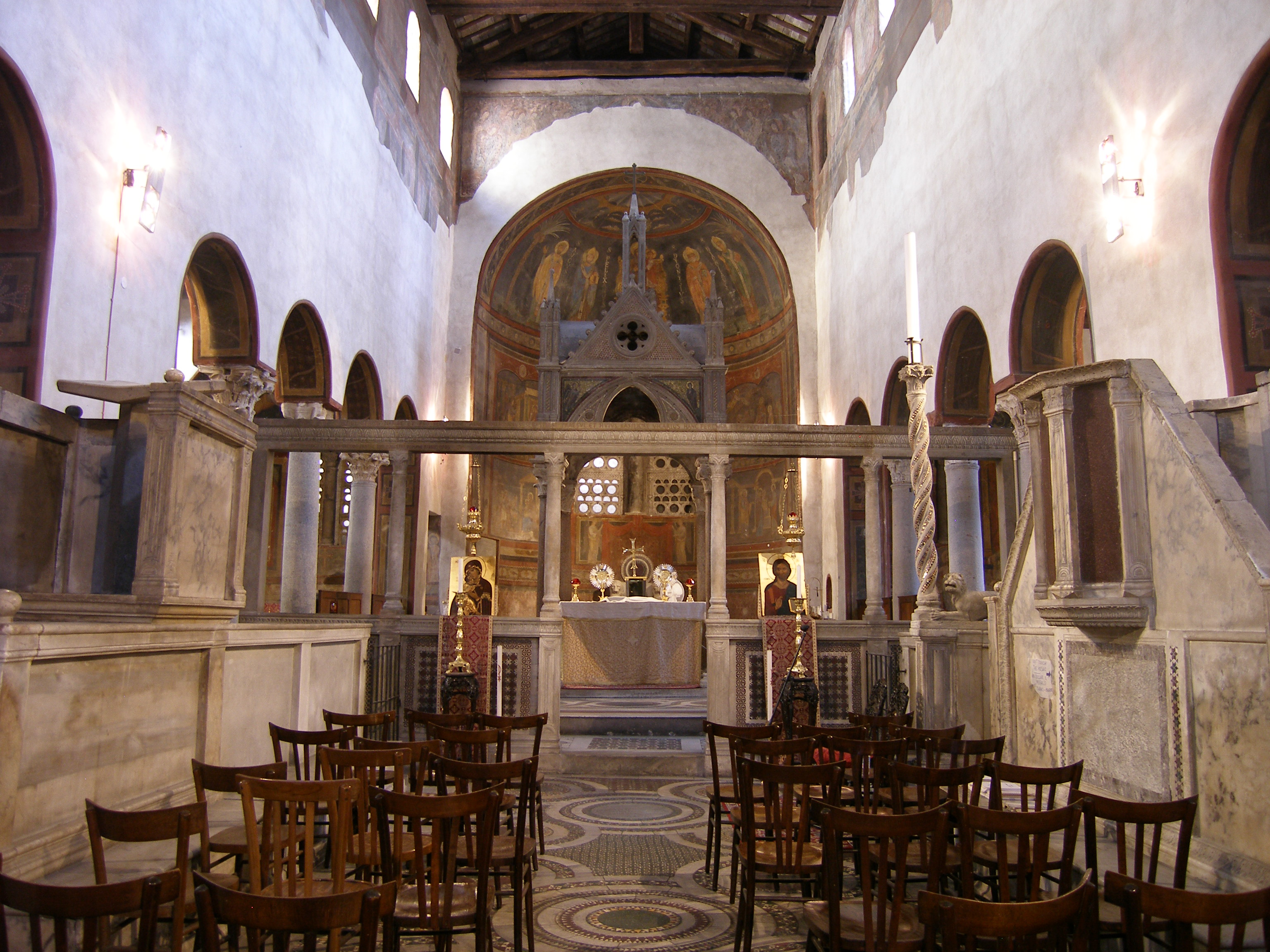 Interior of Santa Maria in Cosmedin, Rome, Italy